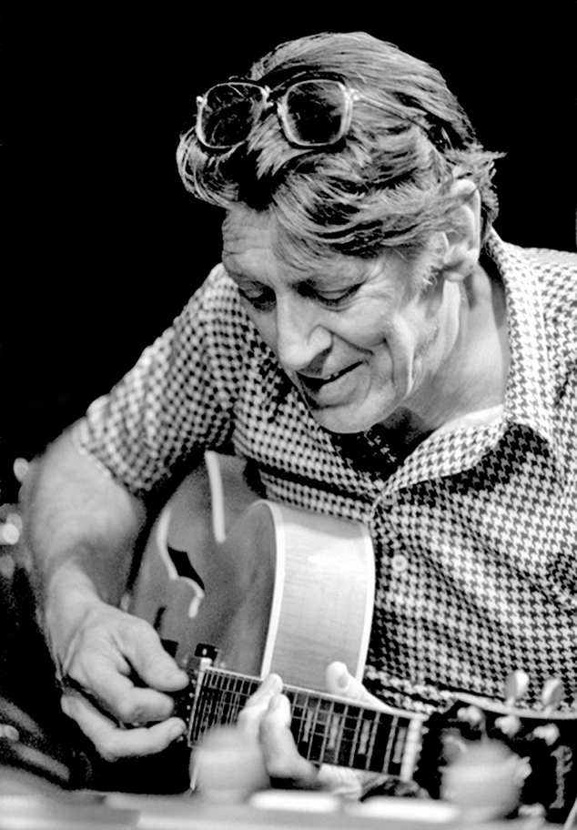 Tal Farlow at Keystone Korner, SF, playing with Red Norvo, 7/28/1981 Photo by Brian McMillen /